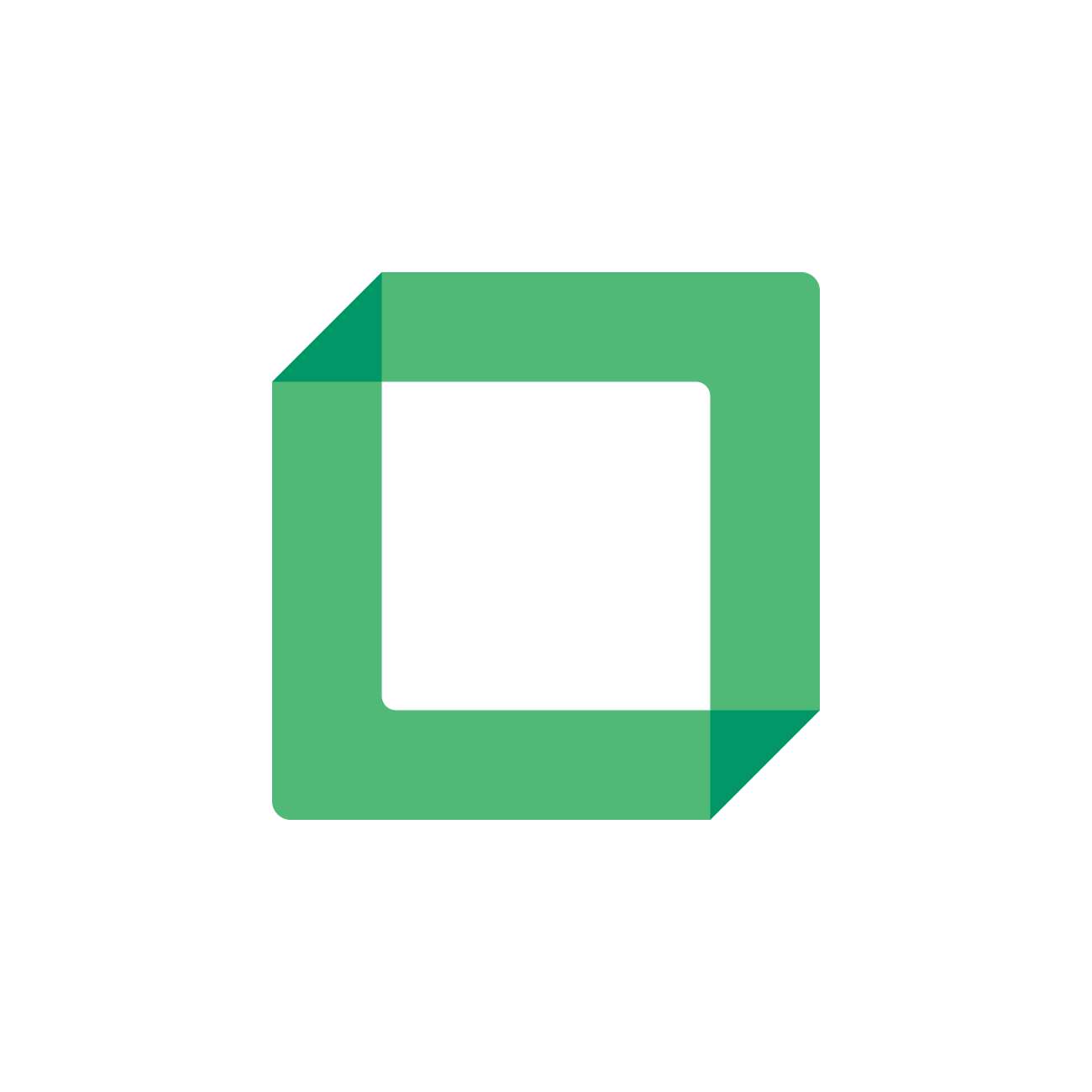 Logo of Election Administration of Georgia